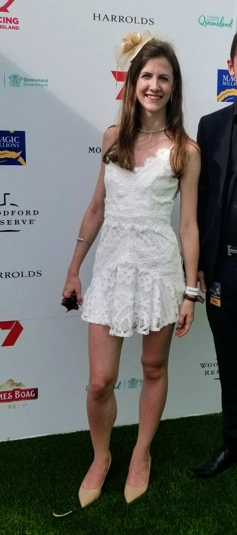 Turf event in Gold Coast with invited celebrities for the social scene.